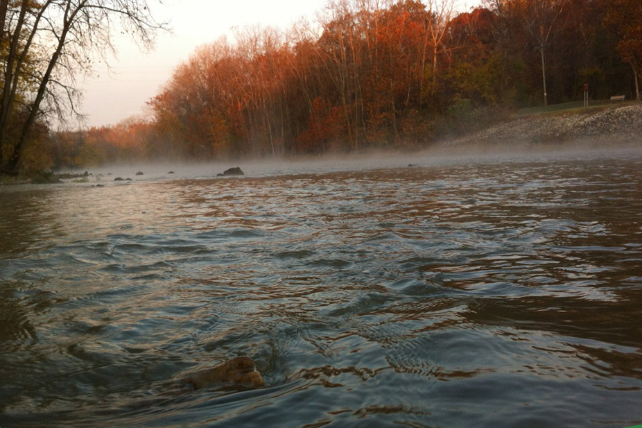 HUNTINGTON, Ind. — Scenic view of Foggy tailwater area of J. Edward Roush Lake here, Oct. 31, 2011. (U.S. Army Corps of Engineers photo by D.J. Unger)